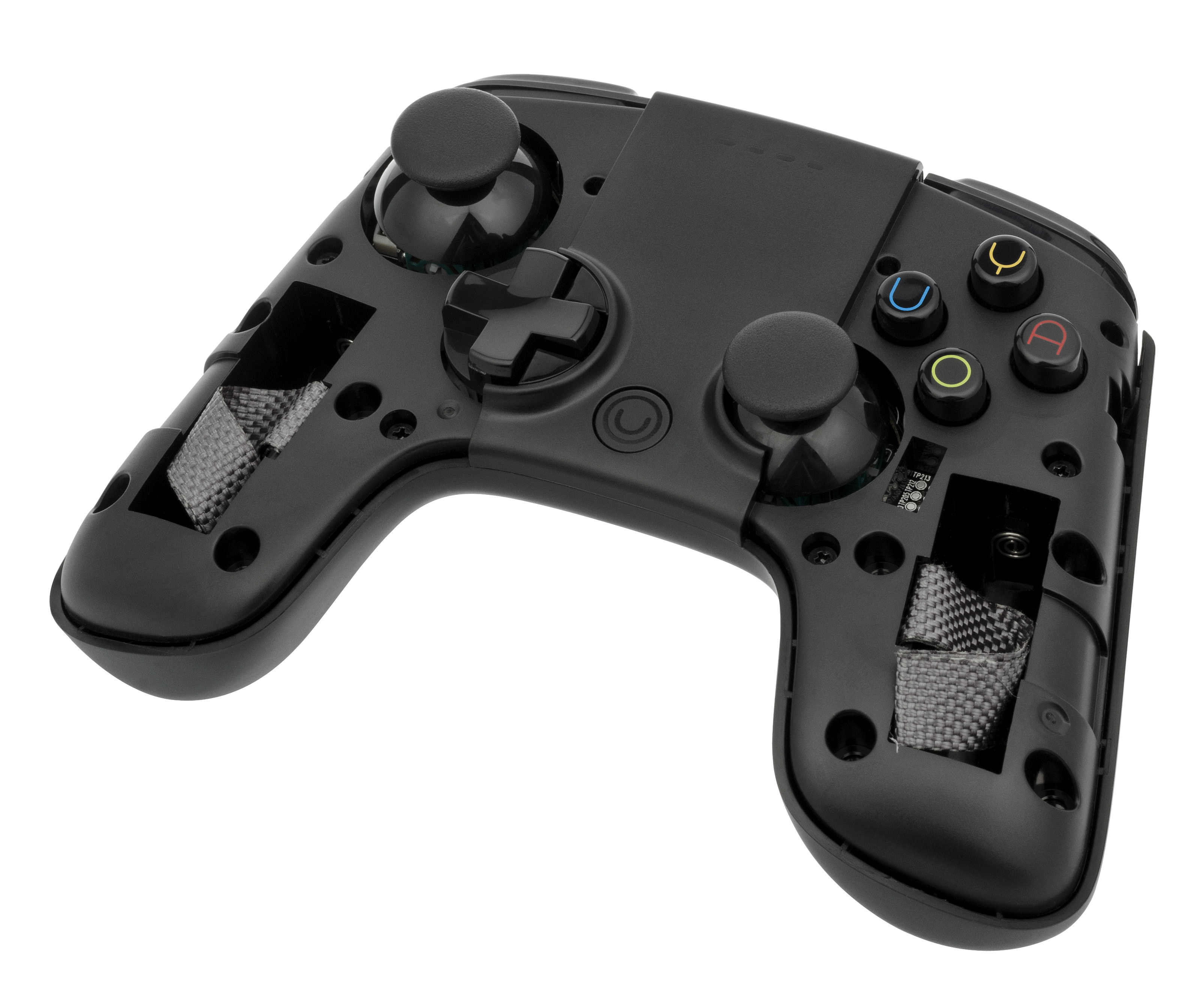 The controller for the Ouya (face plates removed), a gaming microconsole that runs a modified version of the Android operating system. Released in 2013, the Ouya started out as a Kickstarter project that raised over 8 million dollars. Though based off of phone hardware and an Android operating system, games for the system must be specifically ported to the Ouya and sold through its digital distribution service.